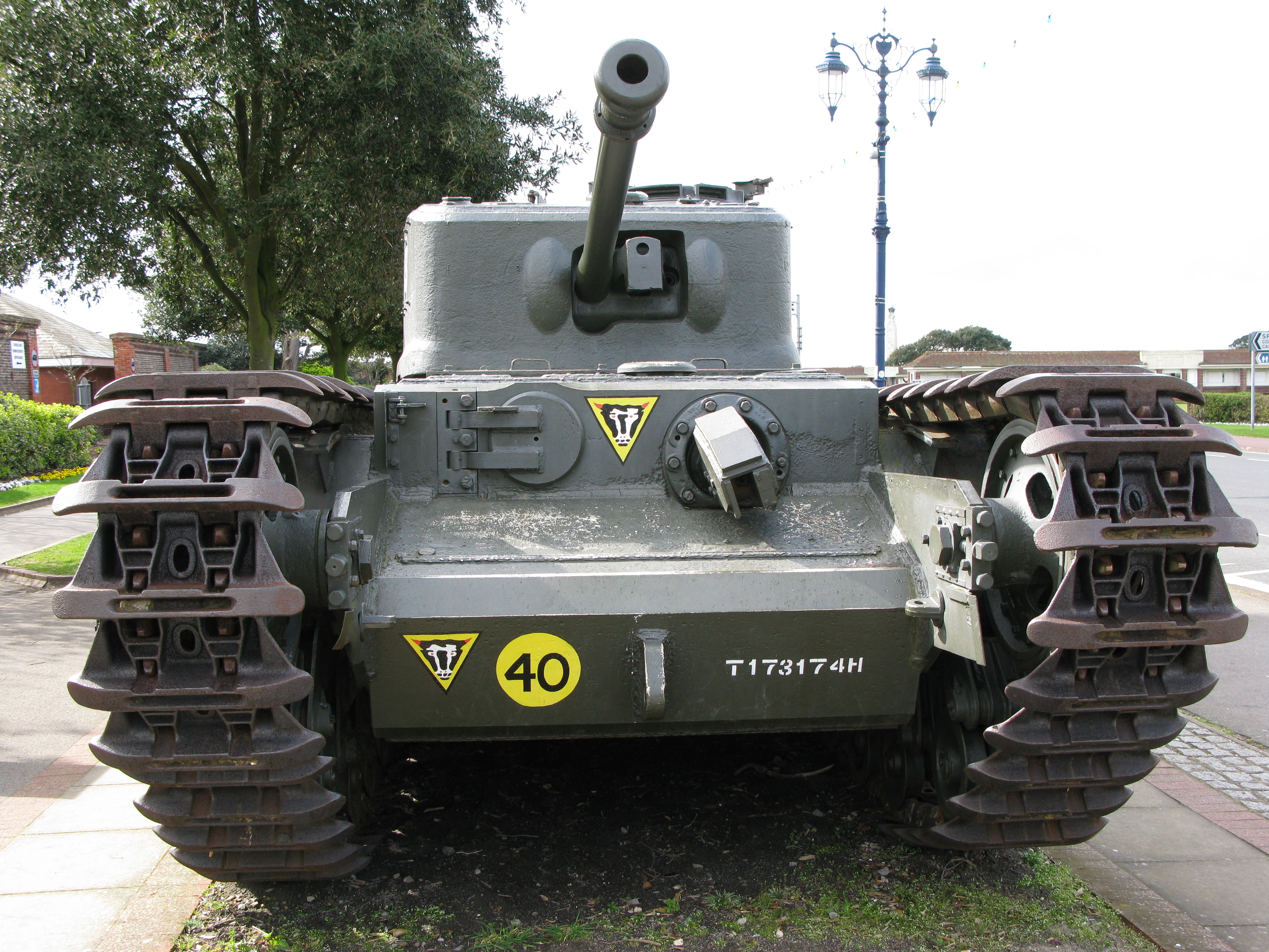 A Churchill Crocodile flame throwing tank from the front.